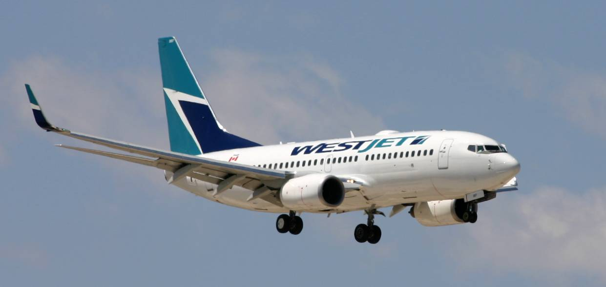 Taken while waiting around Las Vegas airport in April 2008.